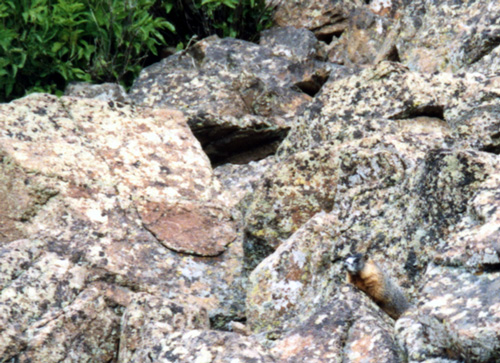 Marmot camouflaged in rock pile. Location: Cedar Breaks National Monument